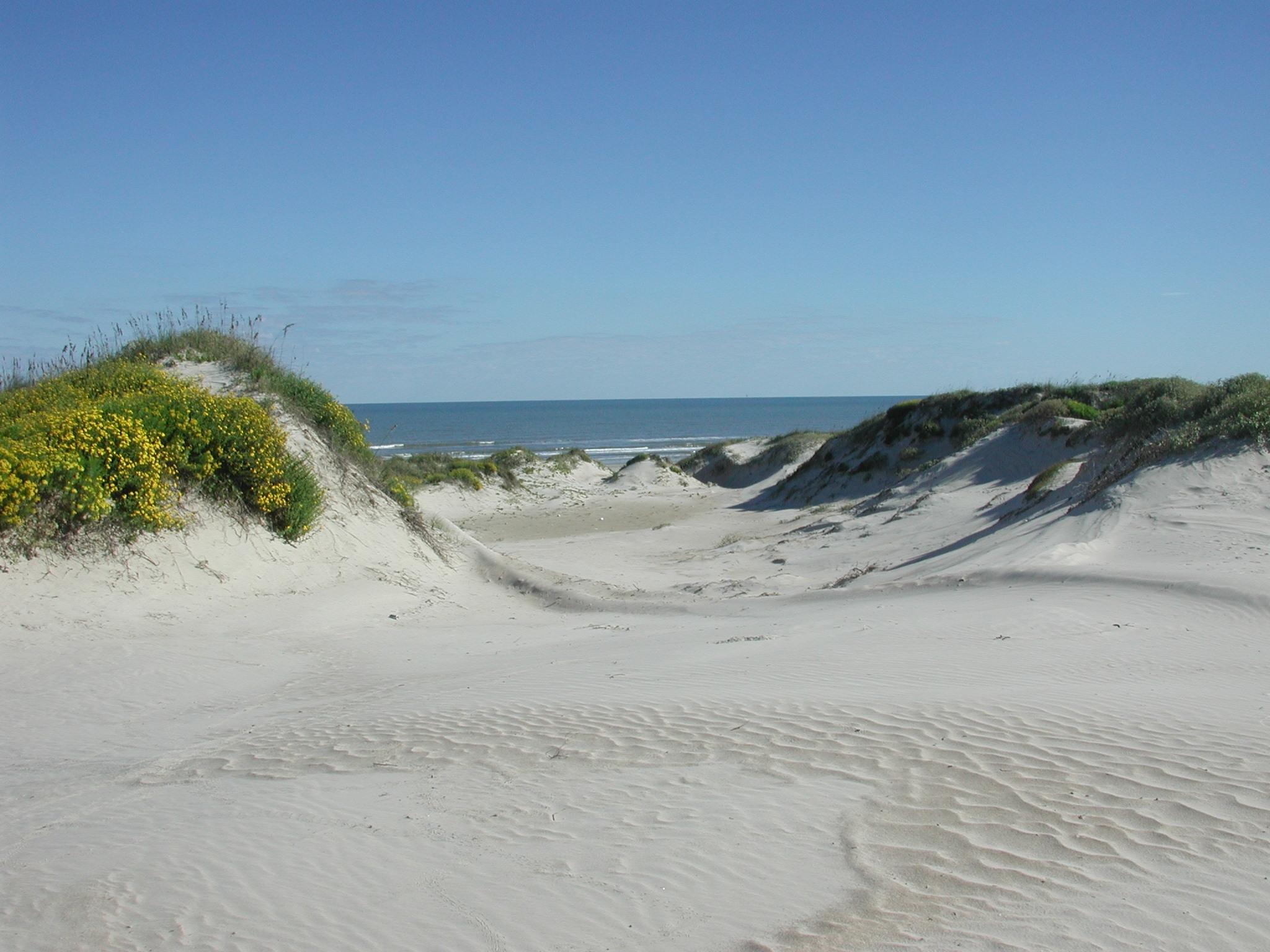 Photos and maps related to Padre Island. Padre Island National Seashore - sand dunes